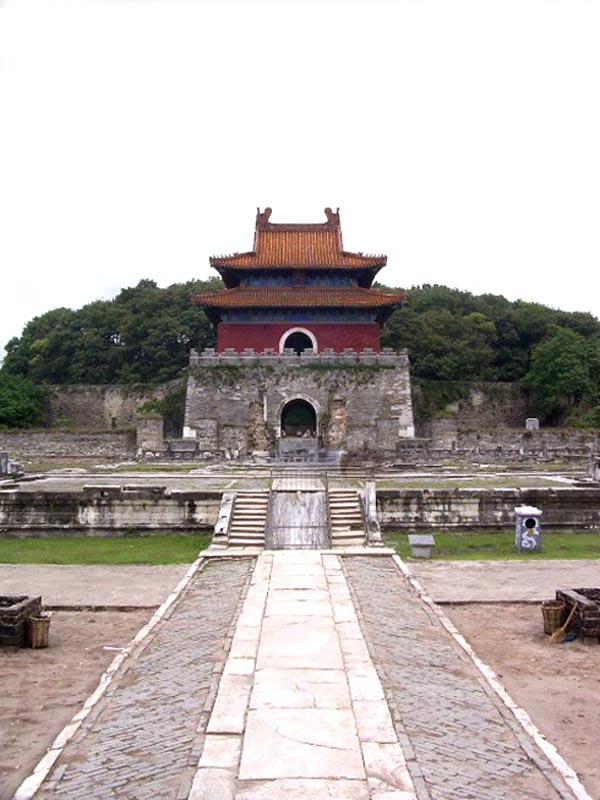 "Minglou" (a kind of buildings) and "baoding" (a kind of building decoration) in Mingxian Mausoleum